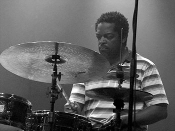 Geerald Cleaver